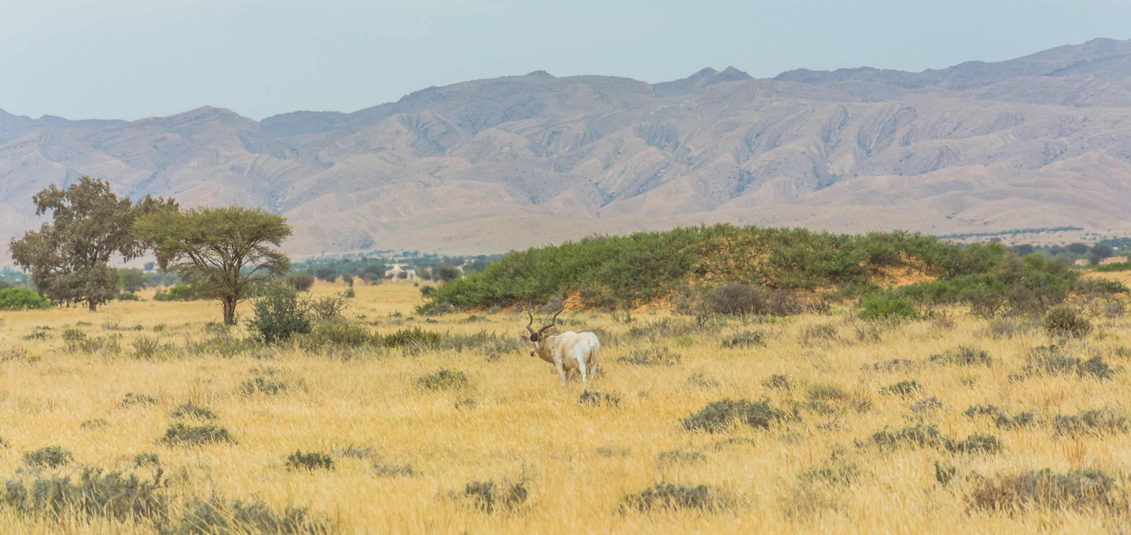 Landscape showing the Addax of the National park of Bouhedma and a tree of "Vachellia (Acacia in french)raddiana" (the second tree from the left) Behind the scene you can see Mountain Haddej This image was taken in the side of the park belonging to Gafsa Gouvernorate.